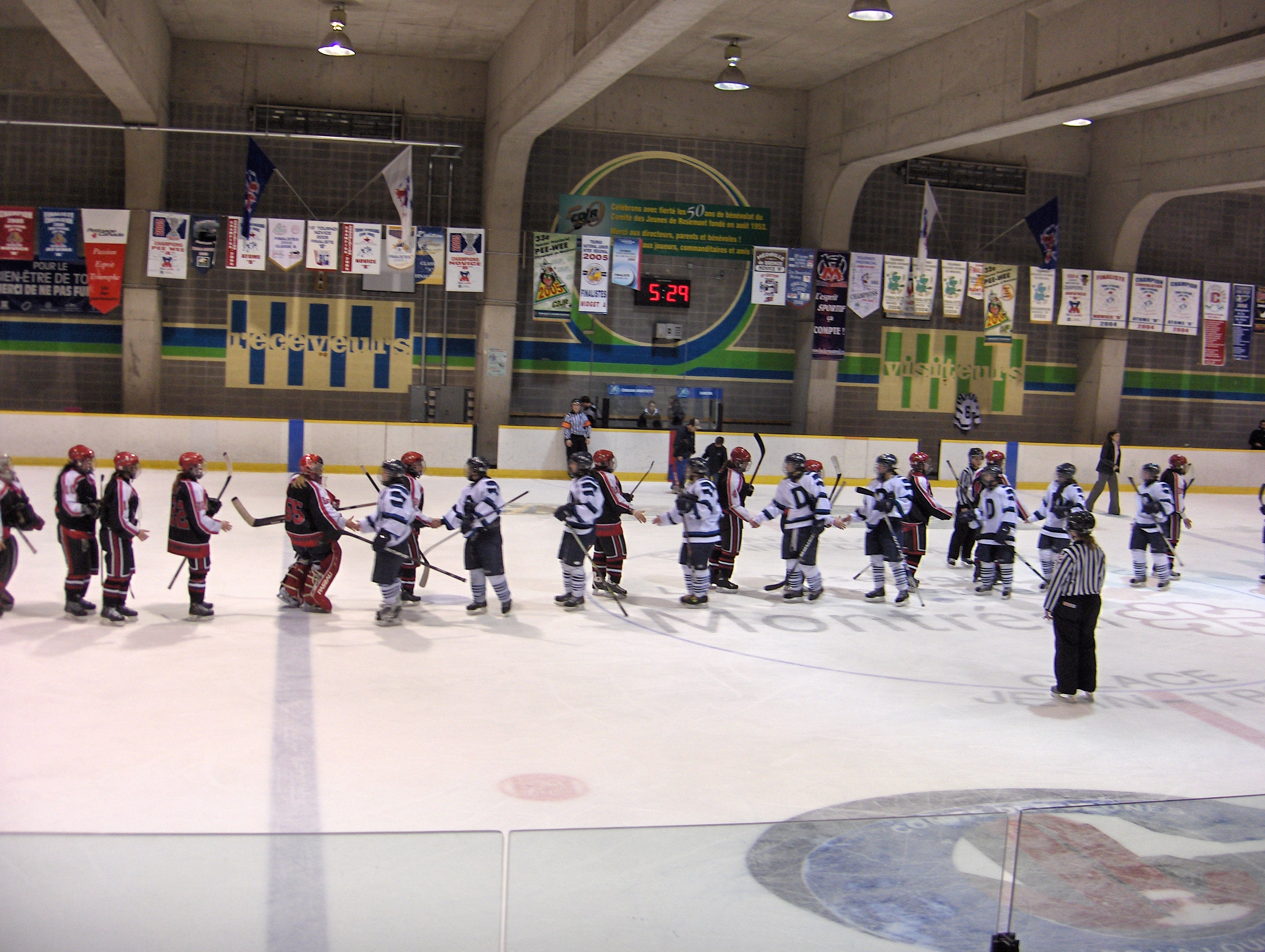 semi-Final Lynx du Collège Édouard-Montpetit vs Dawson Blues